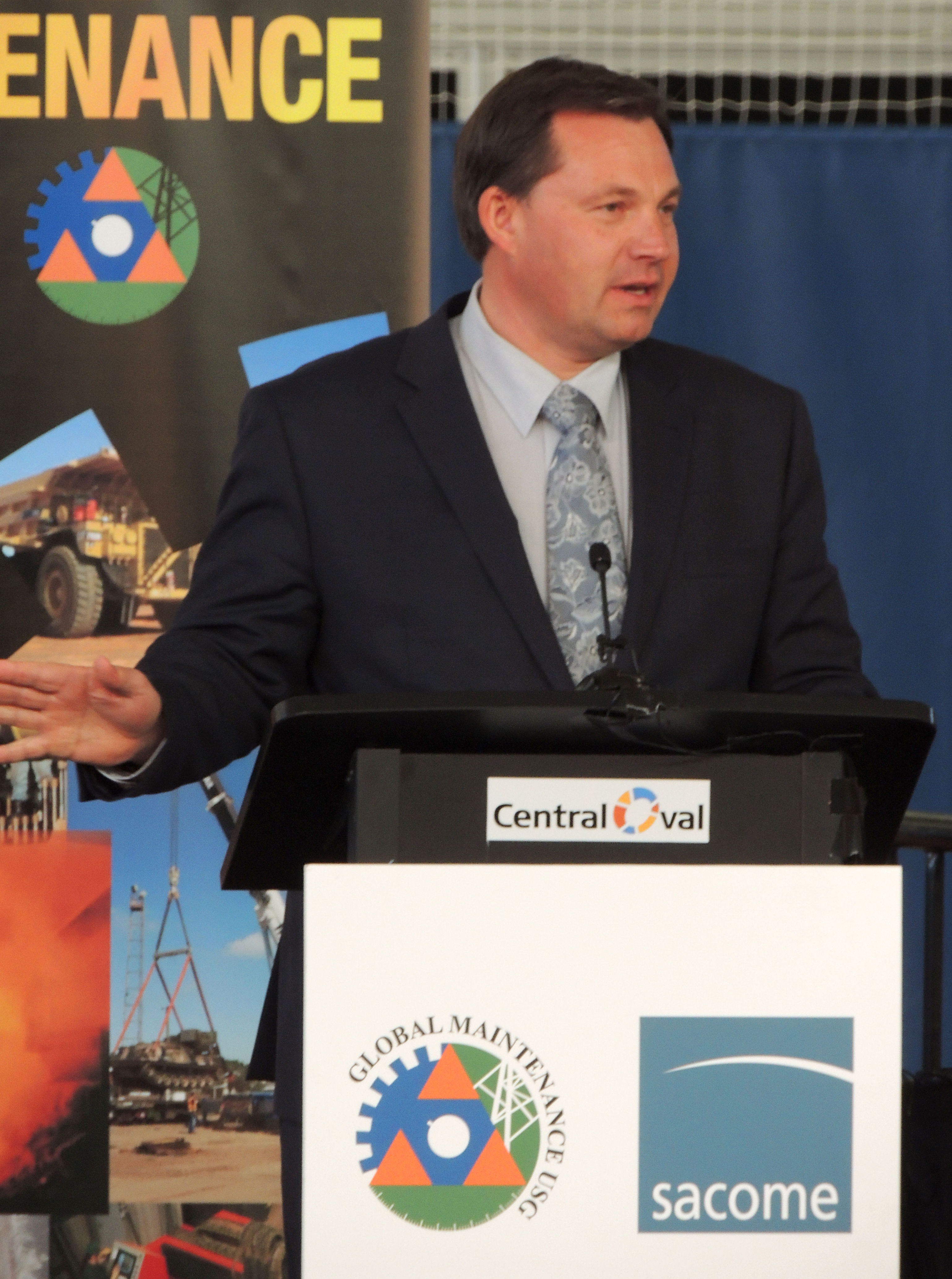 Jason Kuchel, Chief Executive, South Australian Chamber of Mines and Energy (2015)